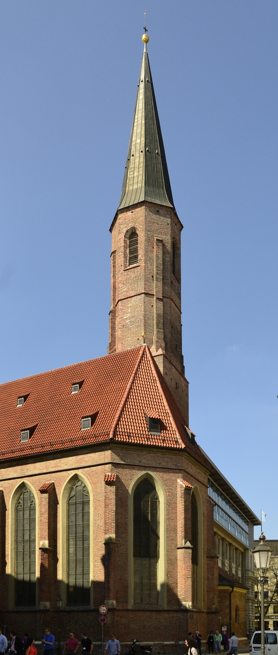 The Greek Orthodox church St. Salvator in Munich.